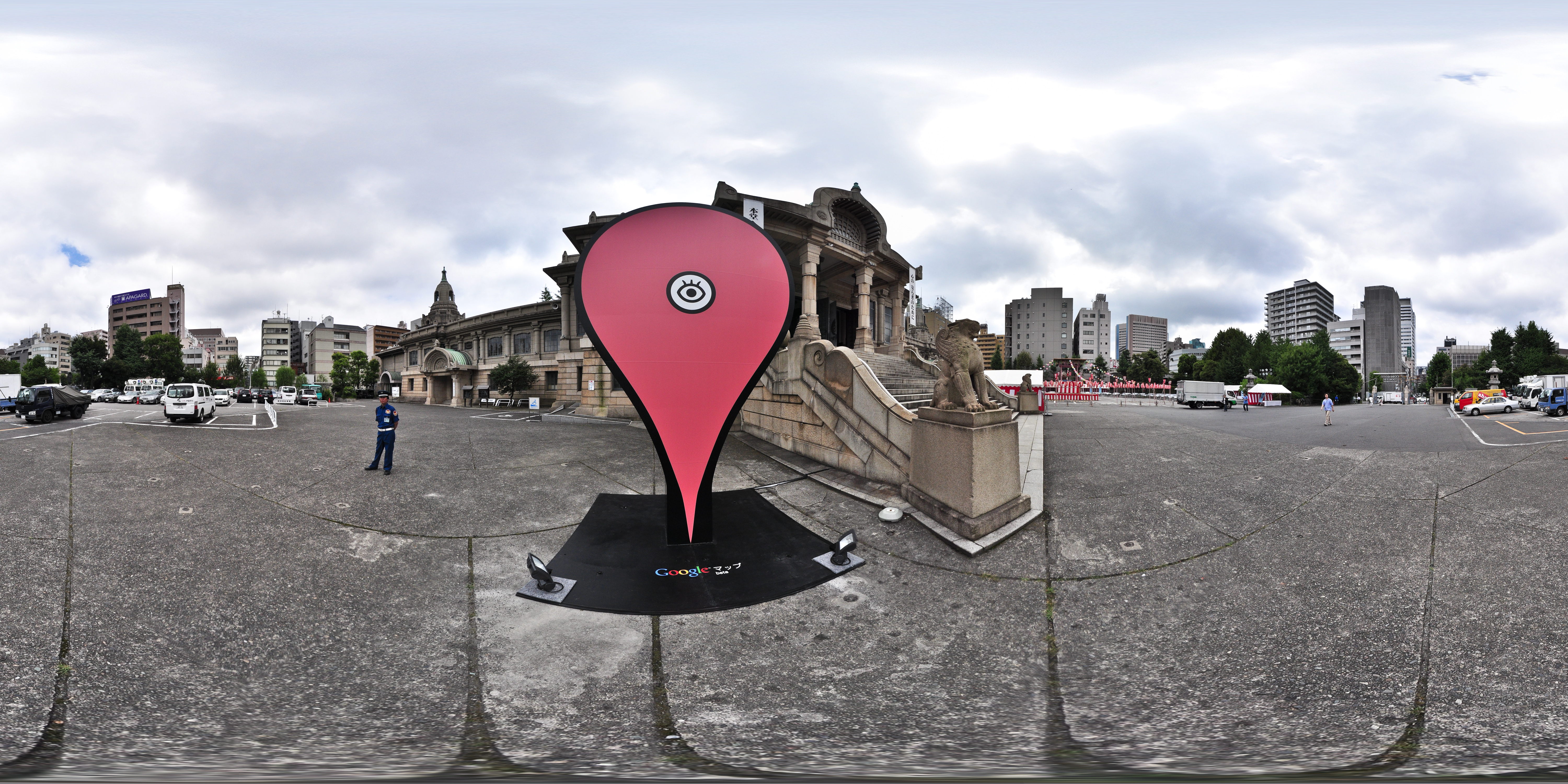 At Tukiji Hingan-ji temple. Security is poor in this area so a lot of guards protect it. In case anything should happen to the maker, whole Google Map(TM) system will be failure in everywhere in the world !!!! Please enjoy the interactive viewer! (thanks to fieldOfView and [/photos/aldo/ Aldo]) And small but quick interactive viewer is here (Wrapr Beta) another interactive version: (need Adobe Flash player) - SLR camera and lens: Nikon D90 /w Sigma 8mm fisheye - handheld (with Simon's "PanoTool") - 4 pan (Philopod pitch variation) - software: ptgui and Photoshop on MS-Windows XP See where this picture was taken. [?] [MAP by ALPSLAB]